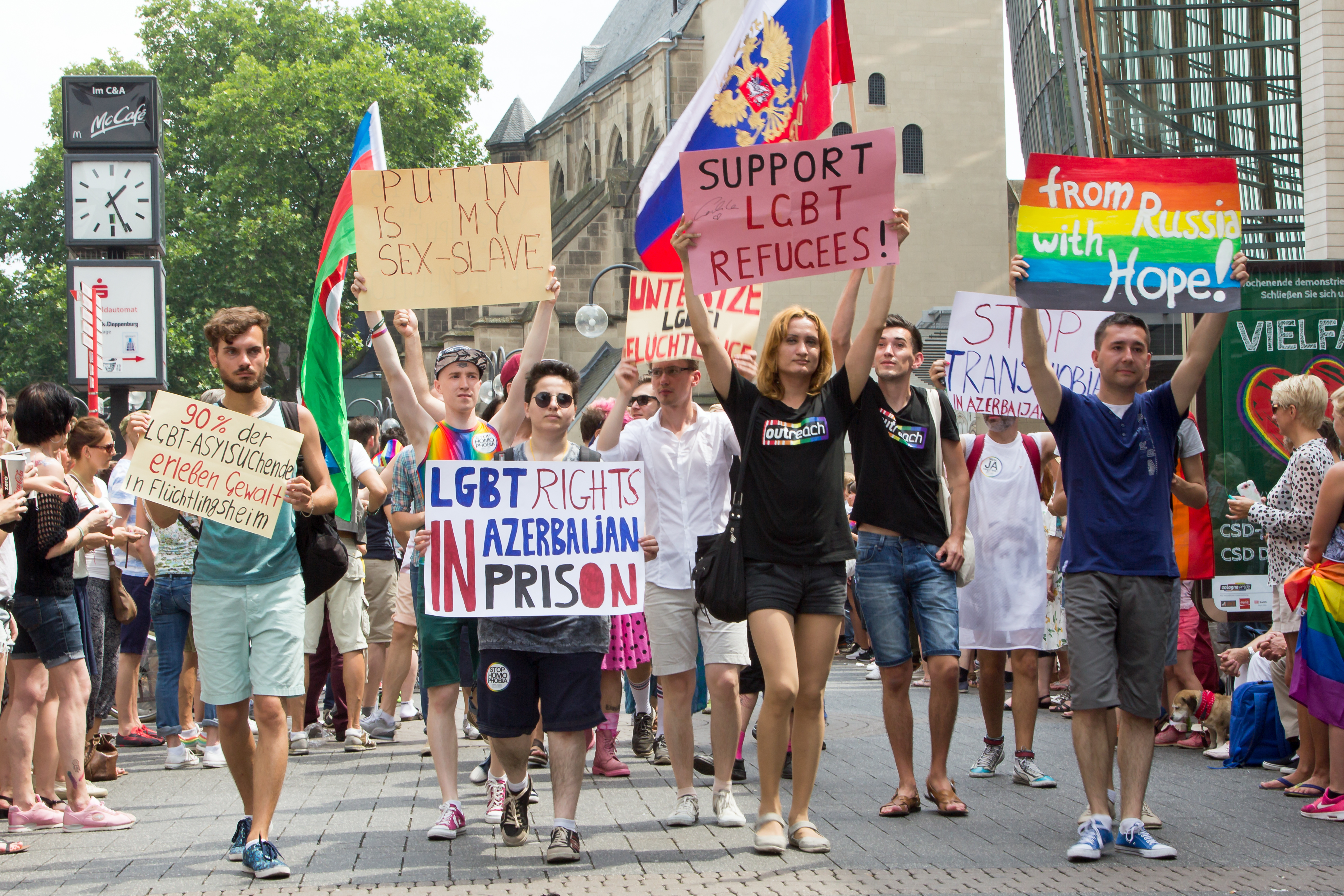 Cologne Pride - Parade on July 5th, 2015